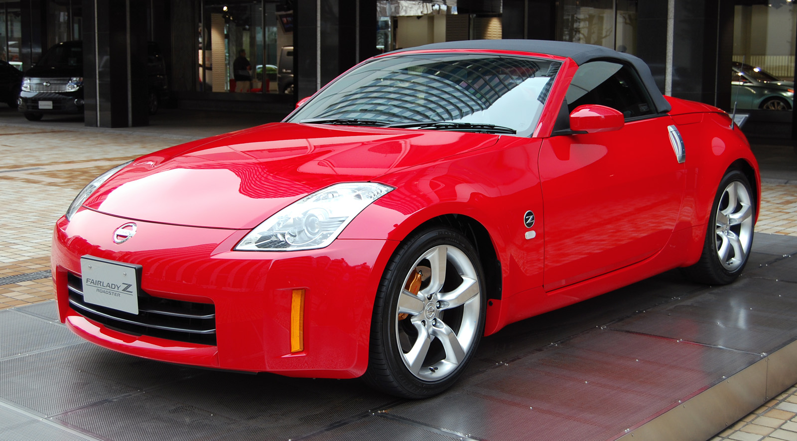 Nissan Fairlady Z Roadster photographed in Nissan Gallery (Ginza, Tokyo)